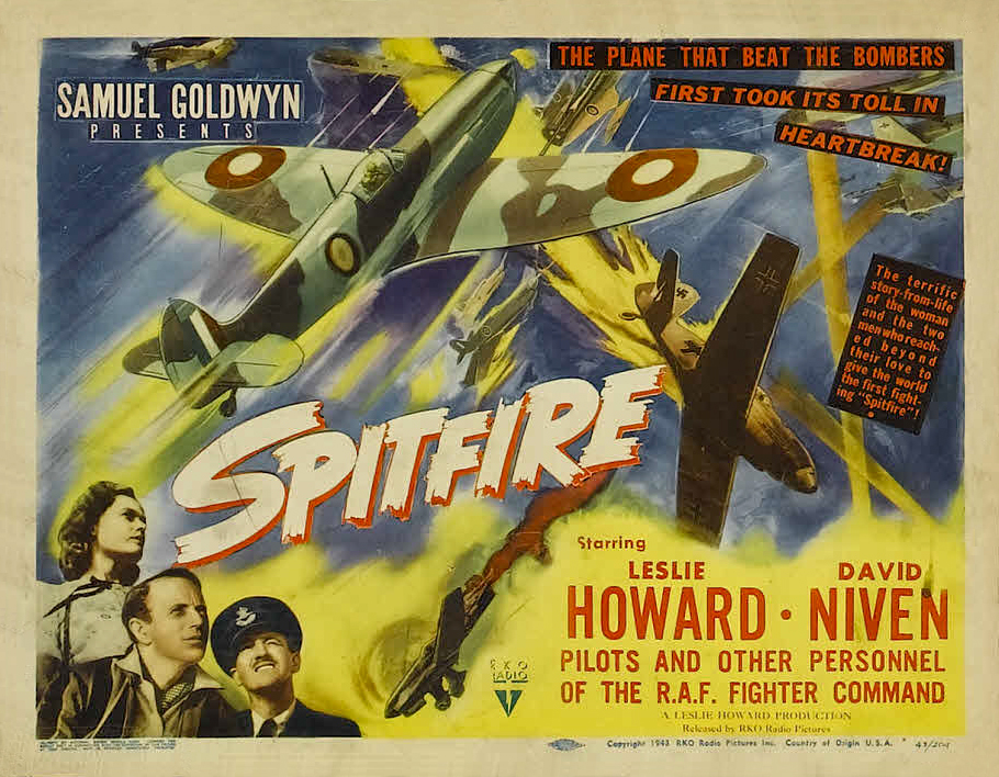 Lobby card for the film Spitfire, released in 1943 in the U.S.; re-edited from the 1942 British film, The First of the Few